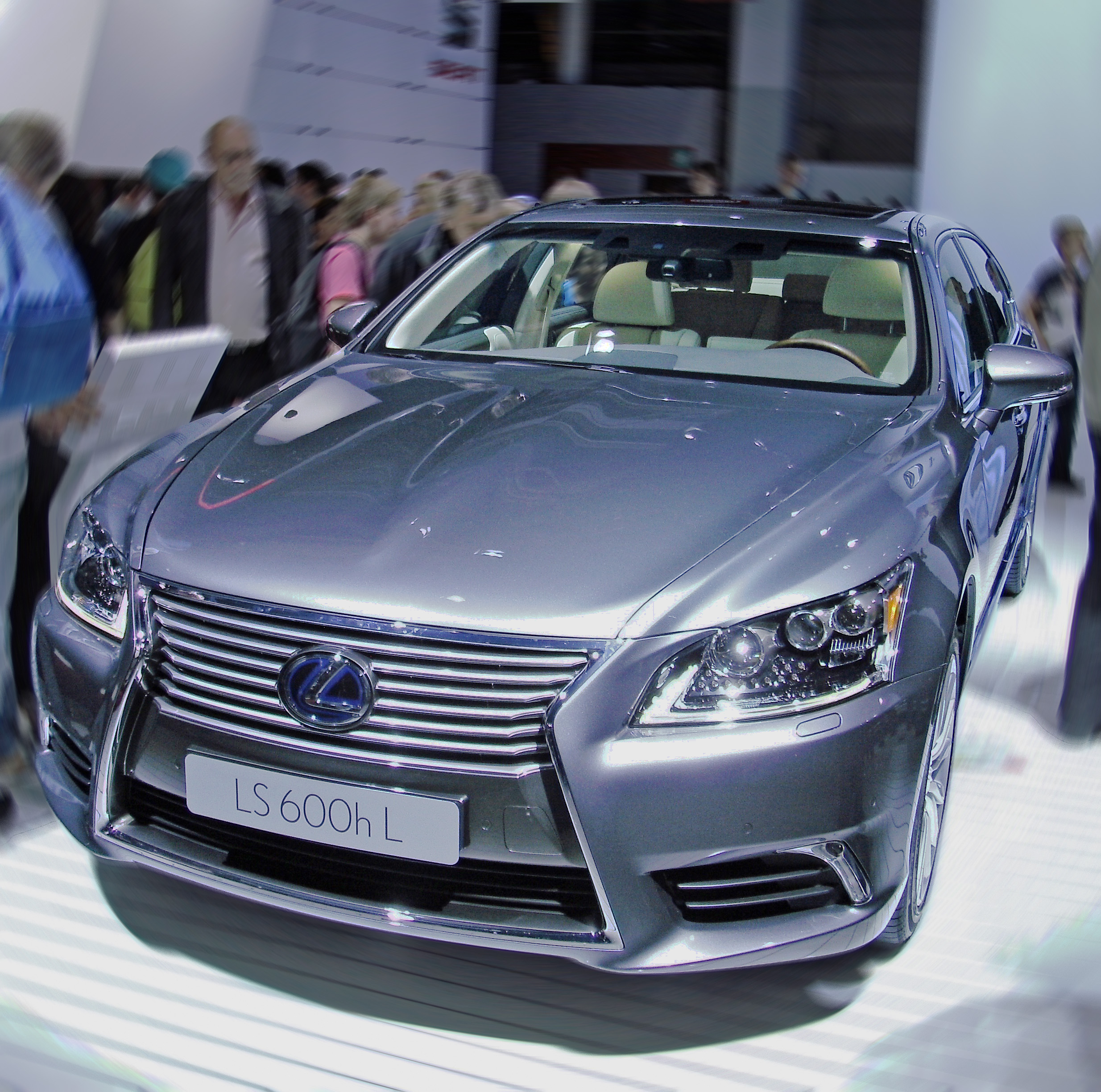 Lexus LS 600h L at 2012 Paris Motor Show